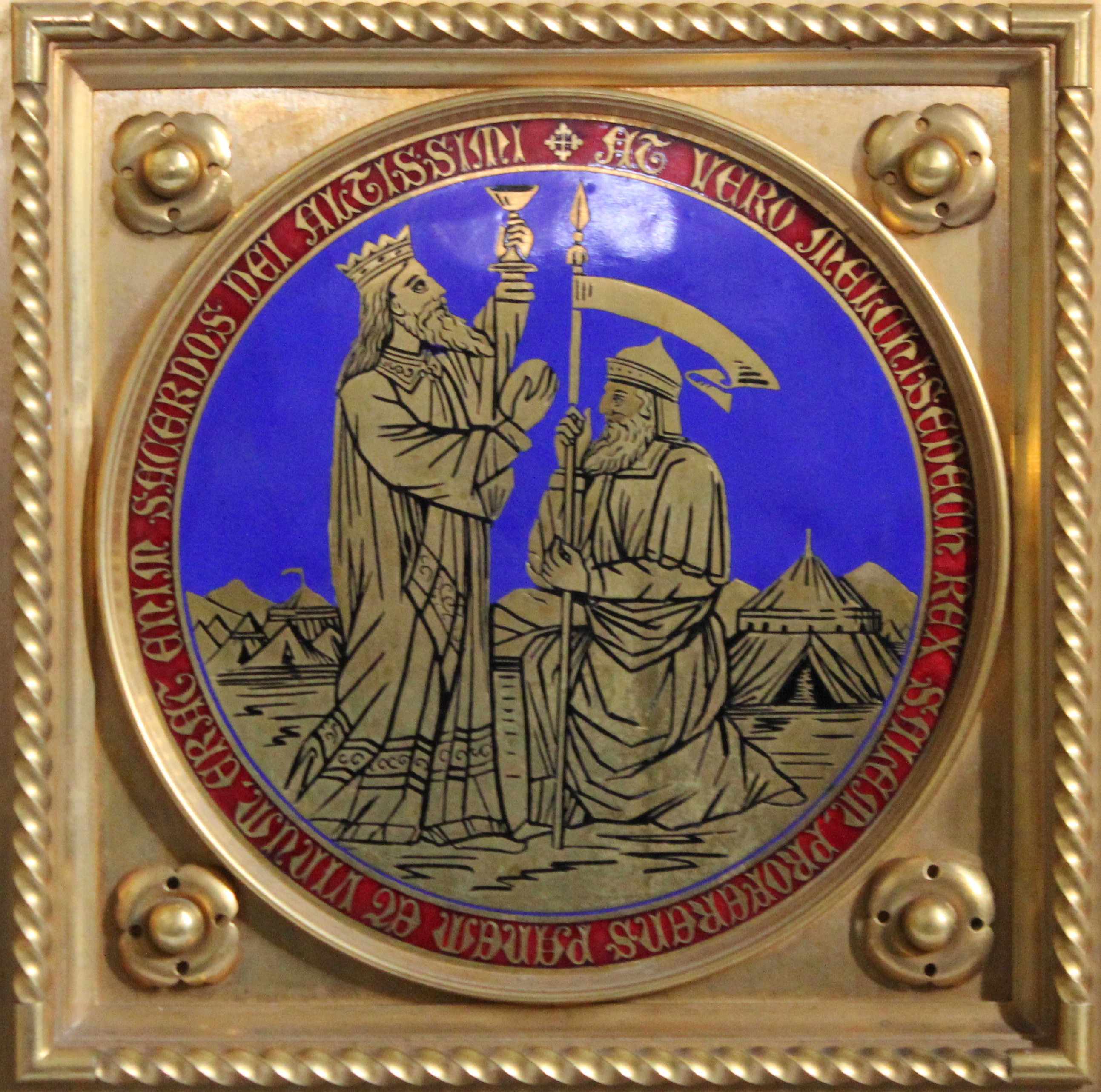 Dominican-Order-church in Friesach: Main altar: Melchizedek